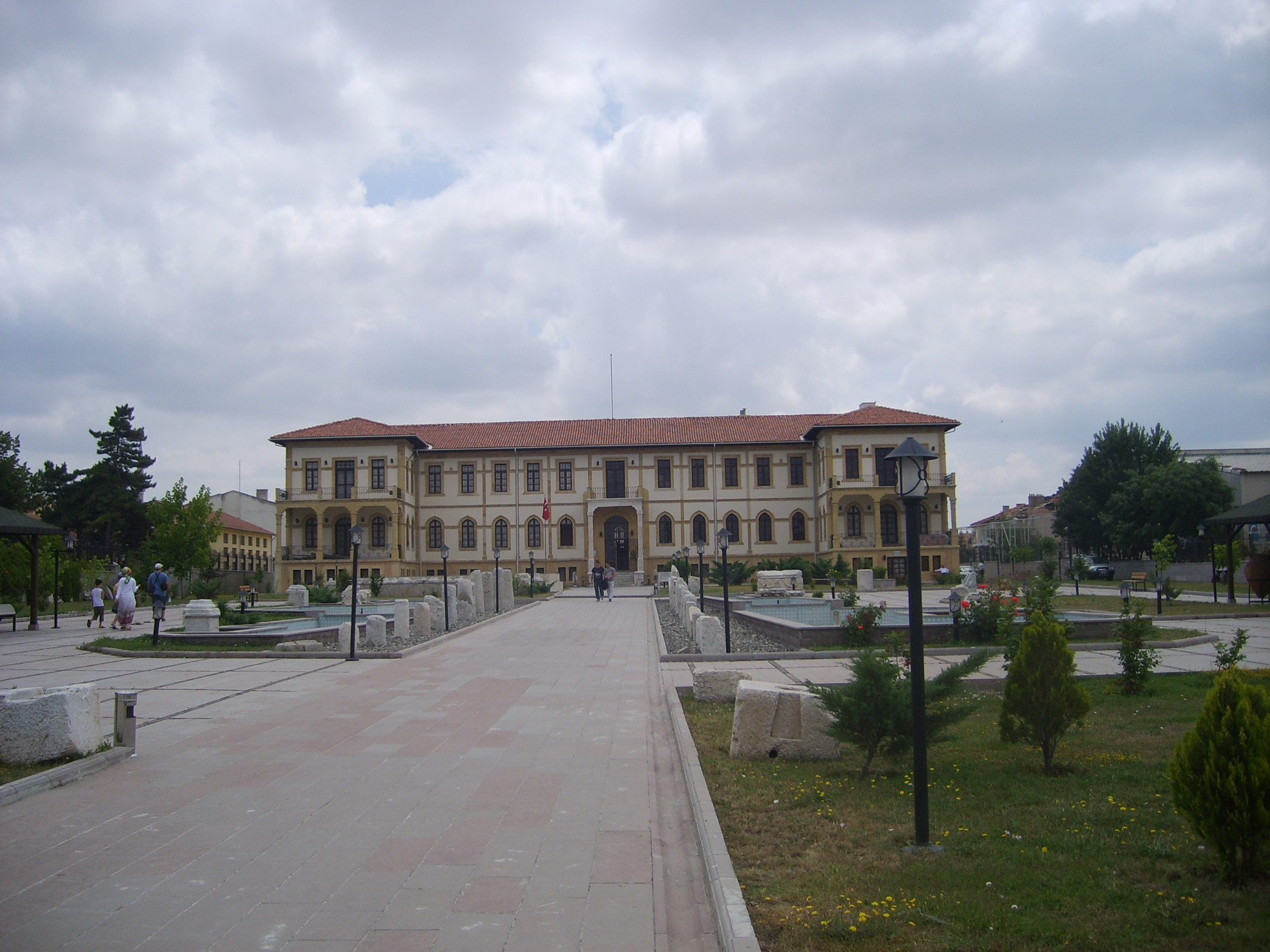 Archaeological museum in Çorum, Turkey.